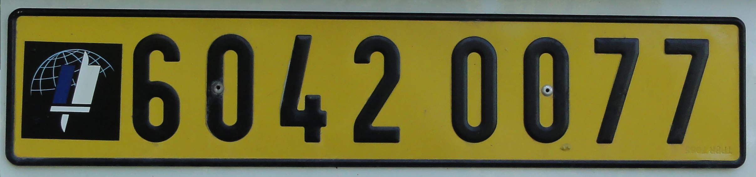 French military license plate “6042 0077”.